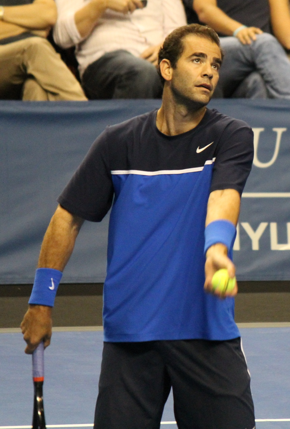 Pete Sampras, playing in Champions Shootout, Philadelphia